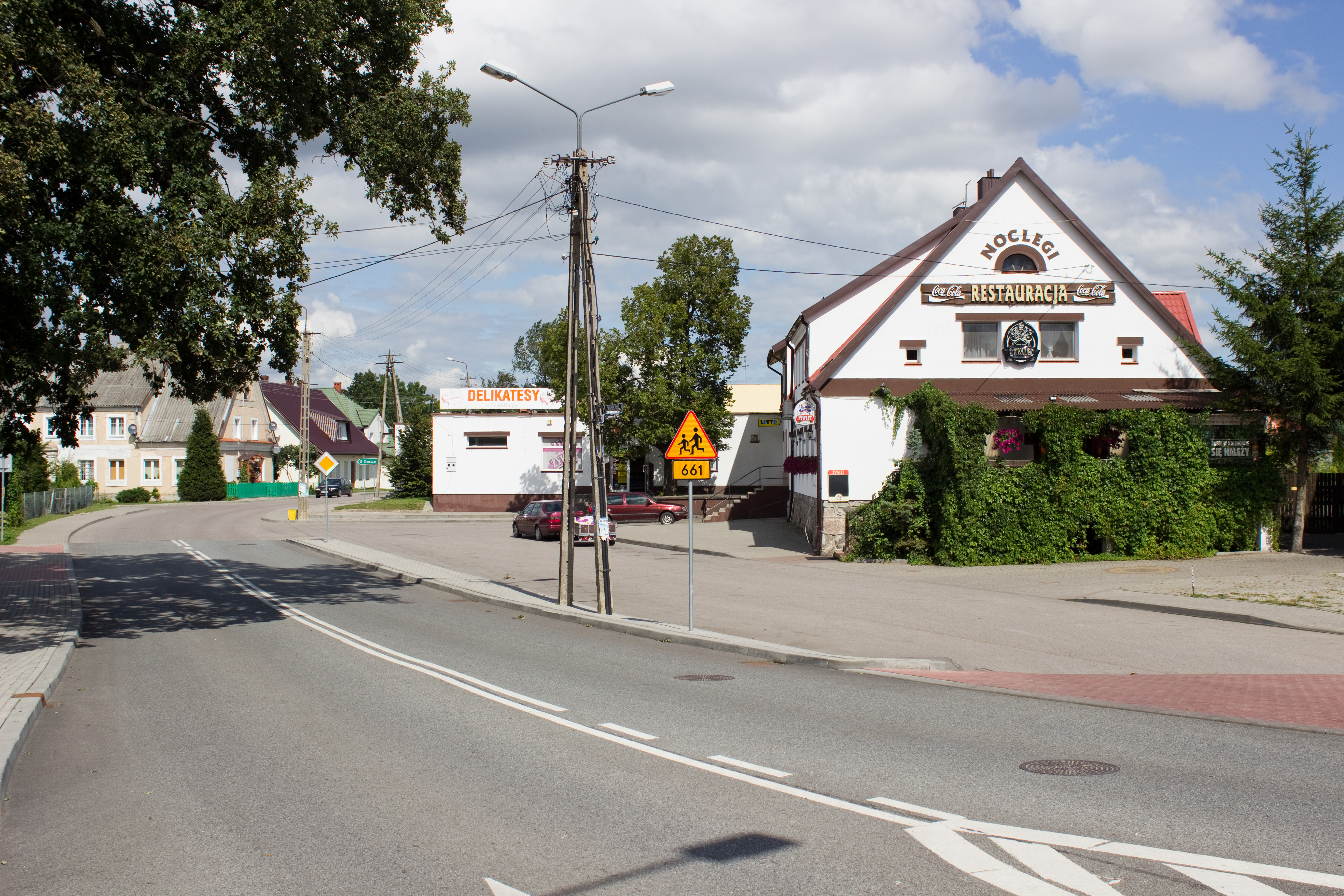 Kalinowo, gmina Kalinowo, powiat ełcki, Warmian-Masurian Voivodeship